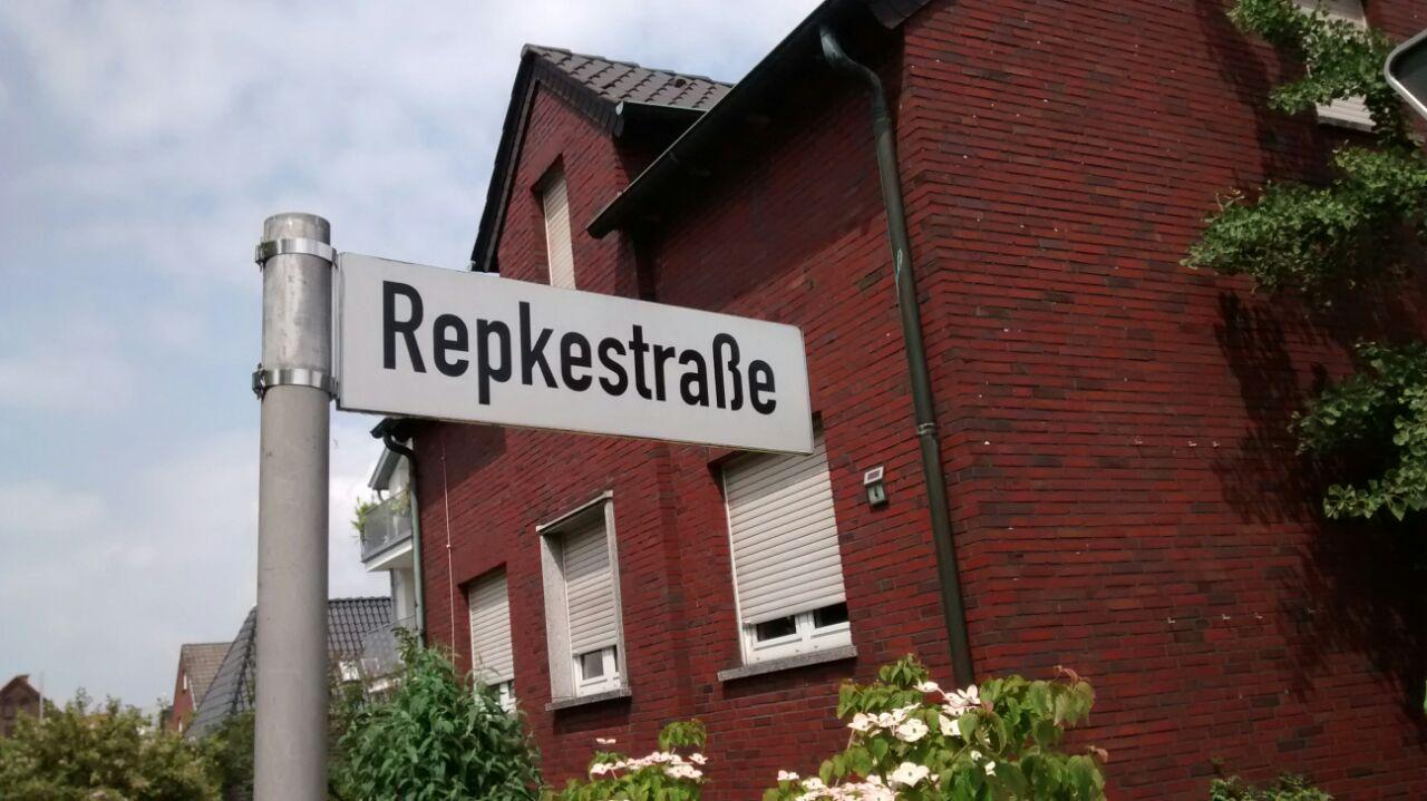 Repkestrasse, Werne